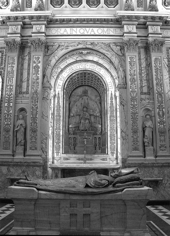 Cathedral-Basilica Mary Queen of the World, Montreal, Quebec, Canada. Tomb of Mgr. Ignace Bourget, second bishop of Montreal, whose dream lead to the construction of this sumptuous cathedral completed only several years after his death.